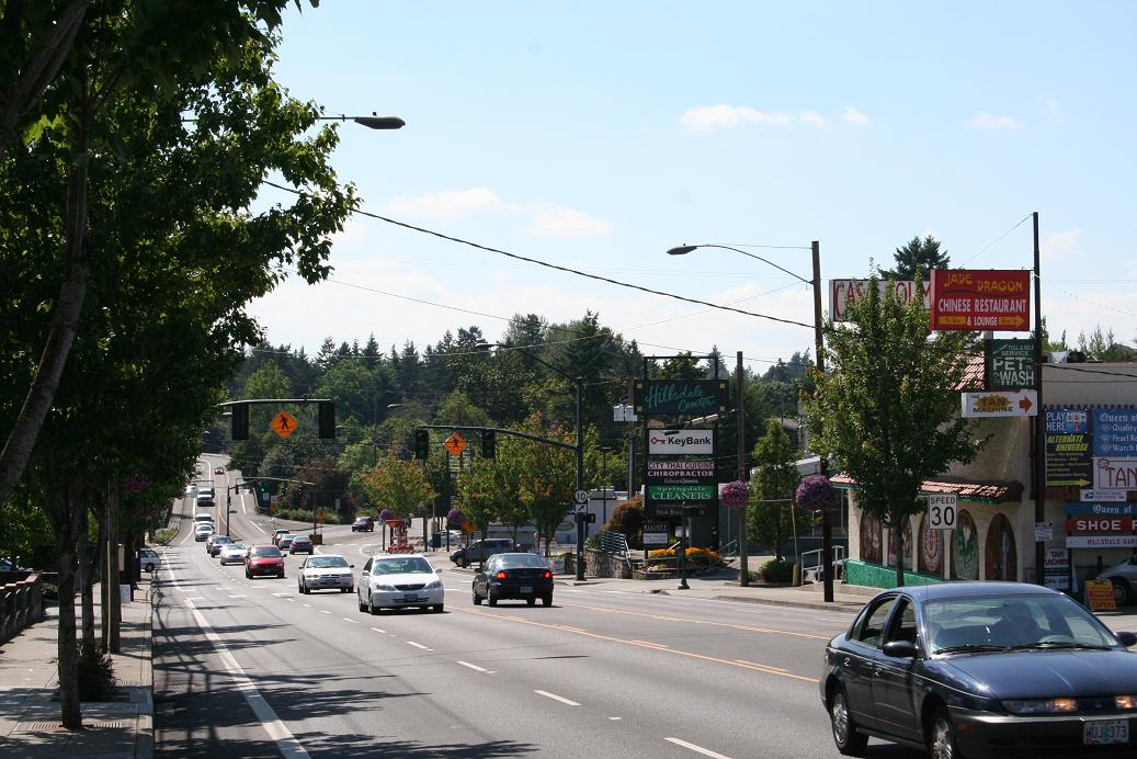 A 2007 photo of Hillsdale Portland, Oregon.